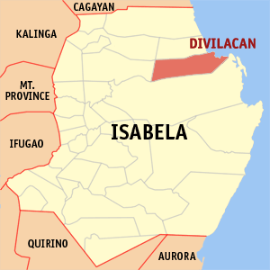 Map of Isabela showing the location of Divilacan